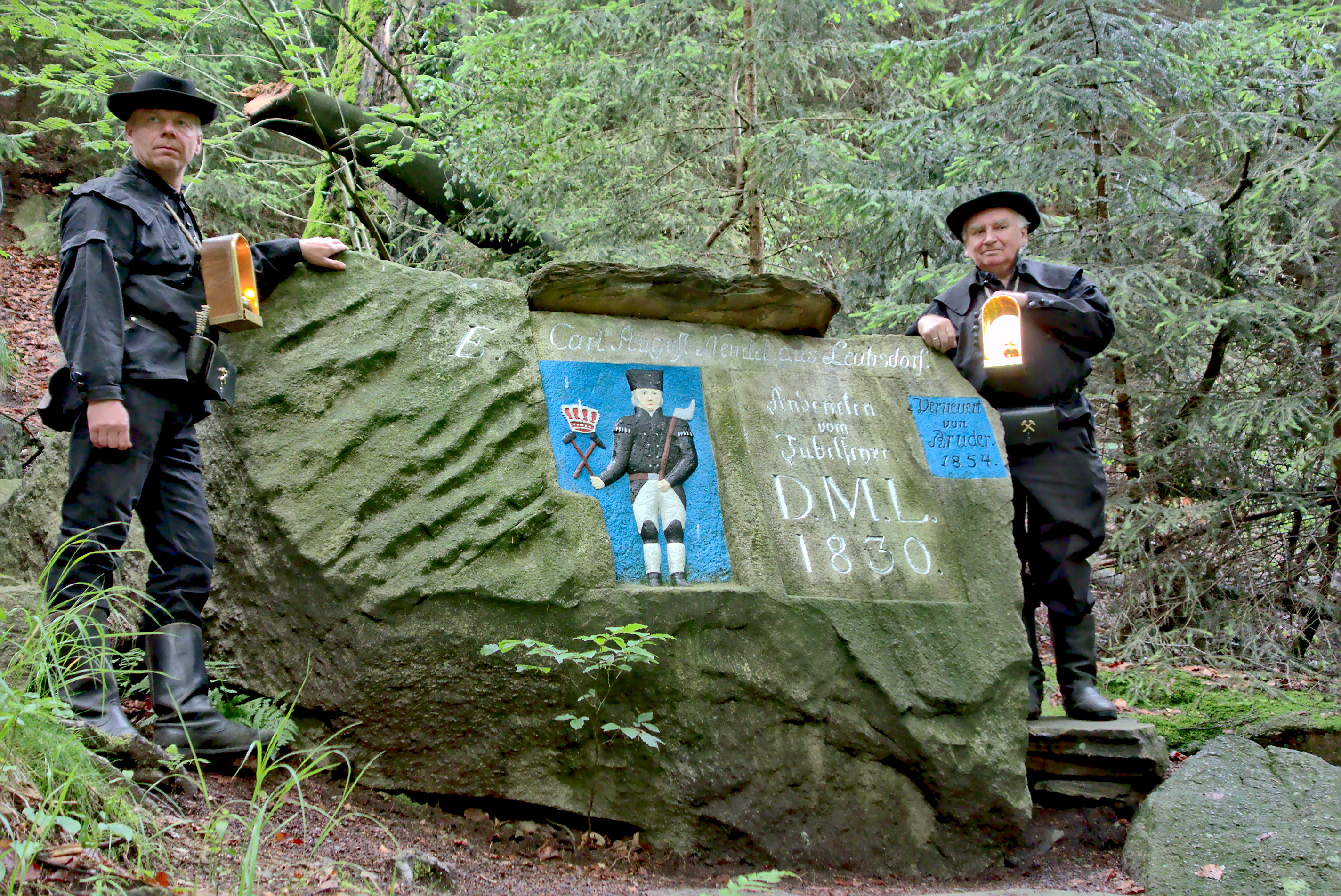 Memorial stone "Bergmännl" with two members of the registered association Historischer Bergbau Brand - Erbisdorf e. V. on the occasion of the induction of the Carl-August-Nendel-hiking-trail.